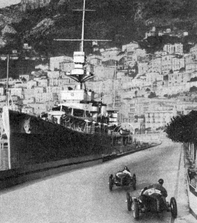 Monaco GP on 2 April 1934, the ship is HMS Dehli and Entry #32 (nearest) is Piero Taruffi in a Maserati 4C 2500 (he retired due to fuel problems).[1]